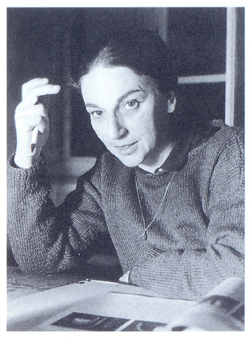 Portrait of the architect Flora Ruchat Roncati